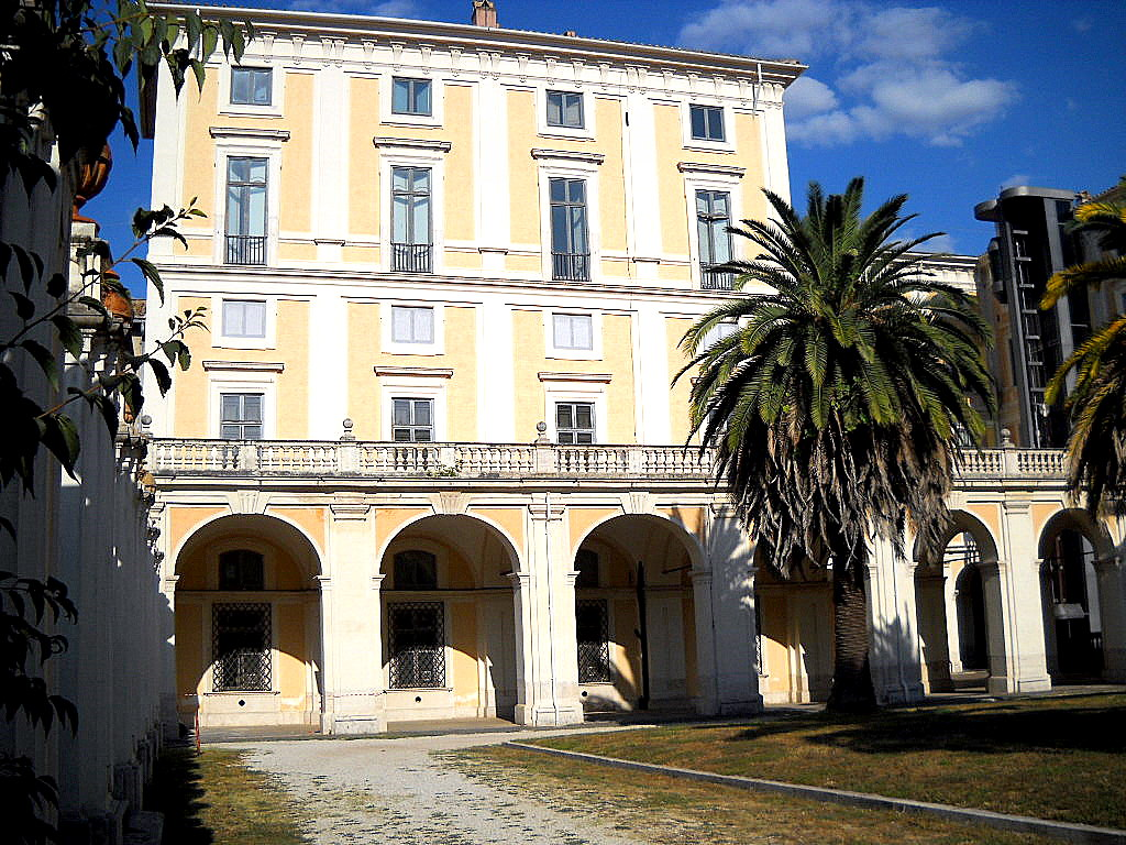 The Palazzo Corsini in Rome, erected for the Corsini family by Ferdinando Fuga.